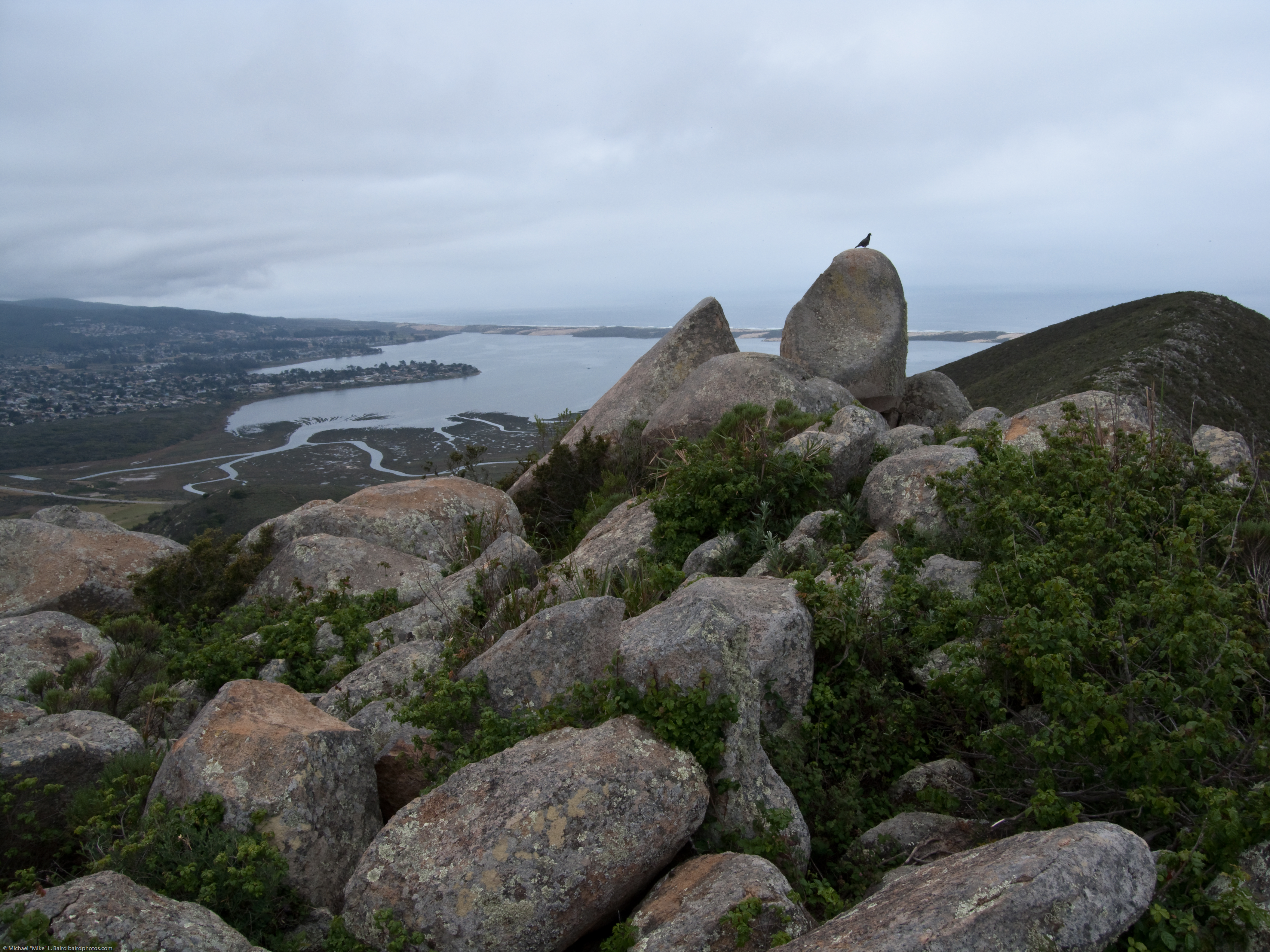 Morro Bay Estuary from the very top at the summit of Cerro Cabrillo (Cerro Peak), in Morro Bay State Park, California. Mike Baird and Nick Richardson brave 1000's of ticks and ample poison oak, to hike up to "Tiki Rock" on the summit of Cerro Cabrillo, one of the Nine Sisters, on 23 April 2007. Snapshot by Michael "Mike" L. Baird, mike at mikebaird d o t com, , Nikon P6000 with built-in GPS measurement, handheld.